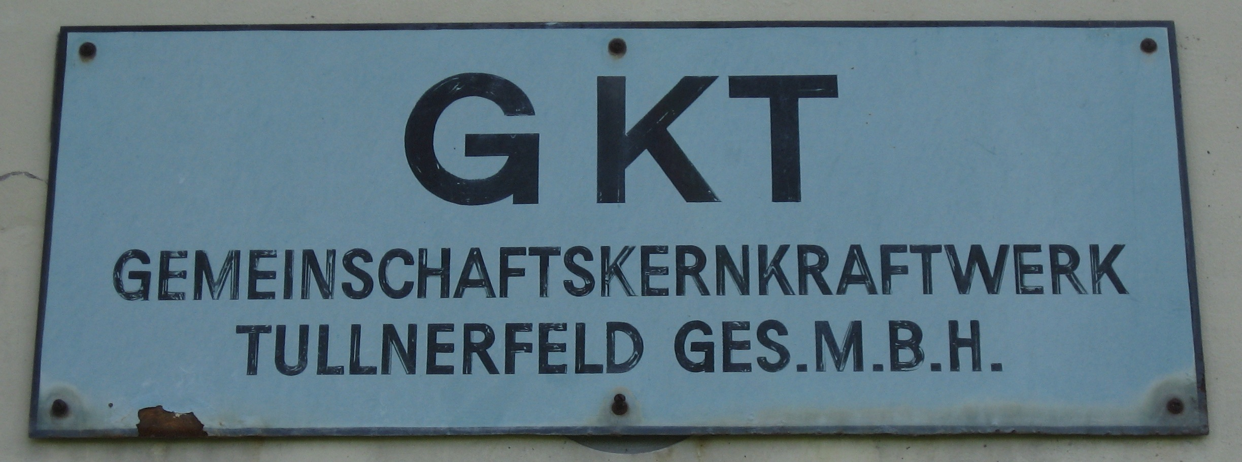 Sign on a building of the Zwentendorf Nuclear Power Plant, name of the operater company